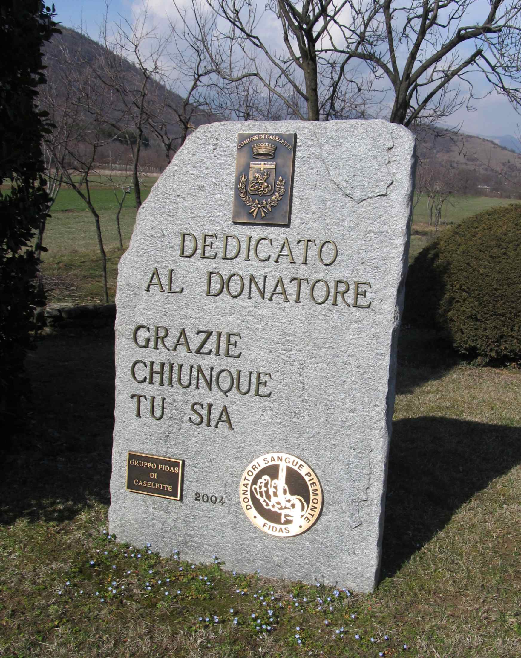 Caselette (TO, Italy): FIDAS tablet to blood donators